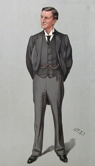 Caricature of Sir Edward Grey MP. Caption read "a Liberal Imperialist".